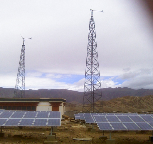 Wind Hybrid system at Energy Park Leh